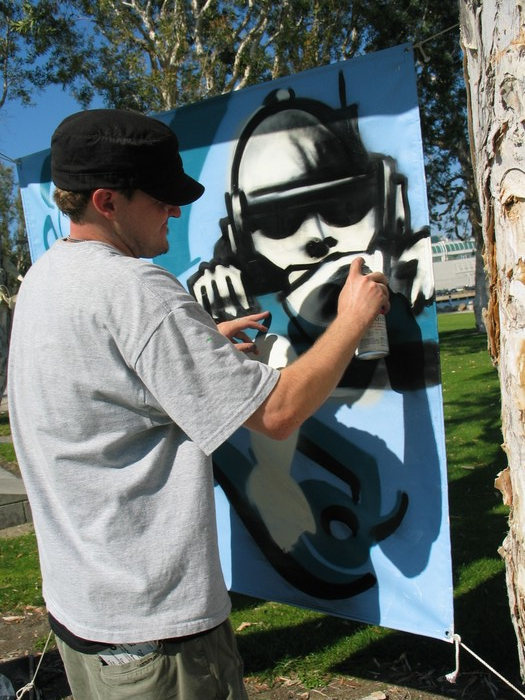 Graffiti art party in San Diego